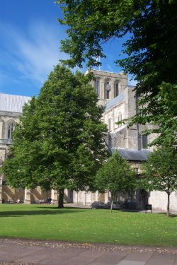 Winchester Cathedral as seen from Cathedral Close.